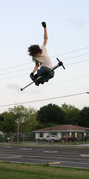 An Xpogo rider - Peg Grab